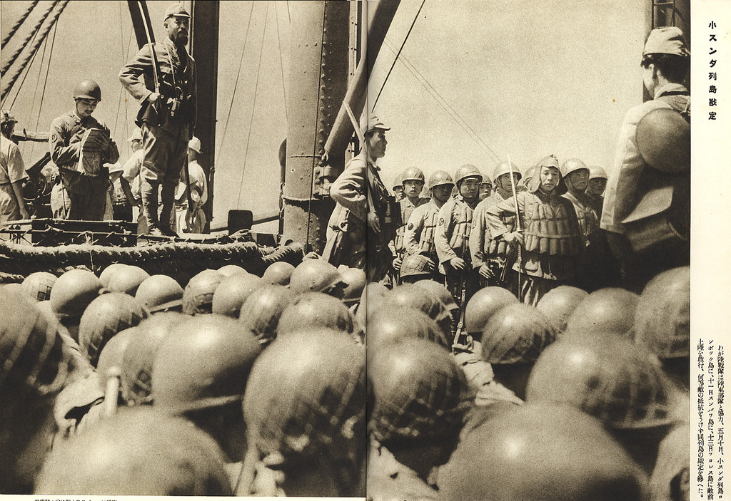 Paratroopers of the 2nd Yokosuka Naval Landing Force under the command of Lieutenant Colonel Genzo Watanabe (standing on top in the left) inside a transport ship before the invasion of Borneo.